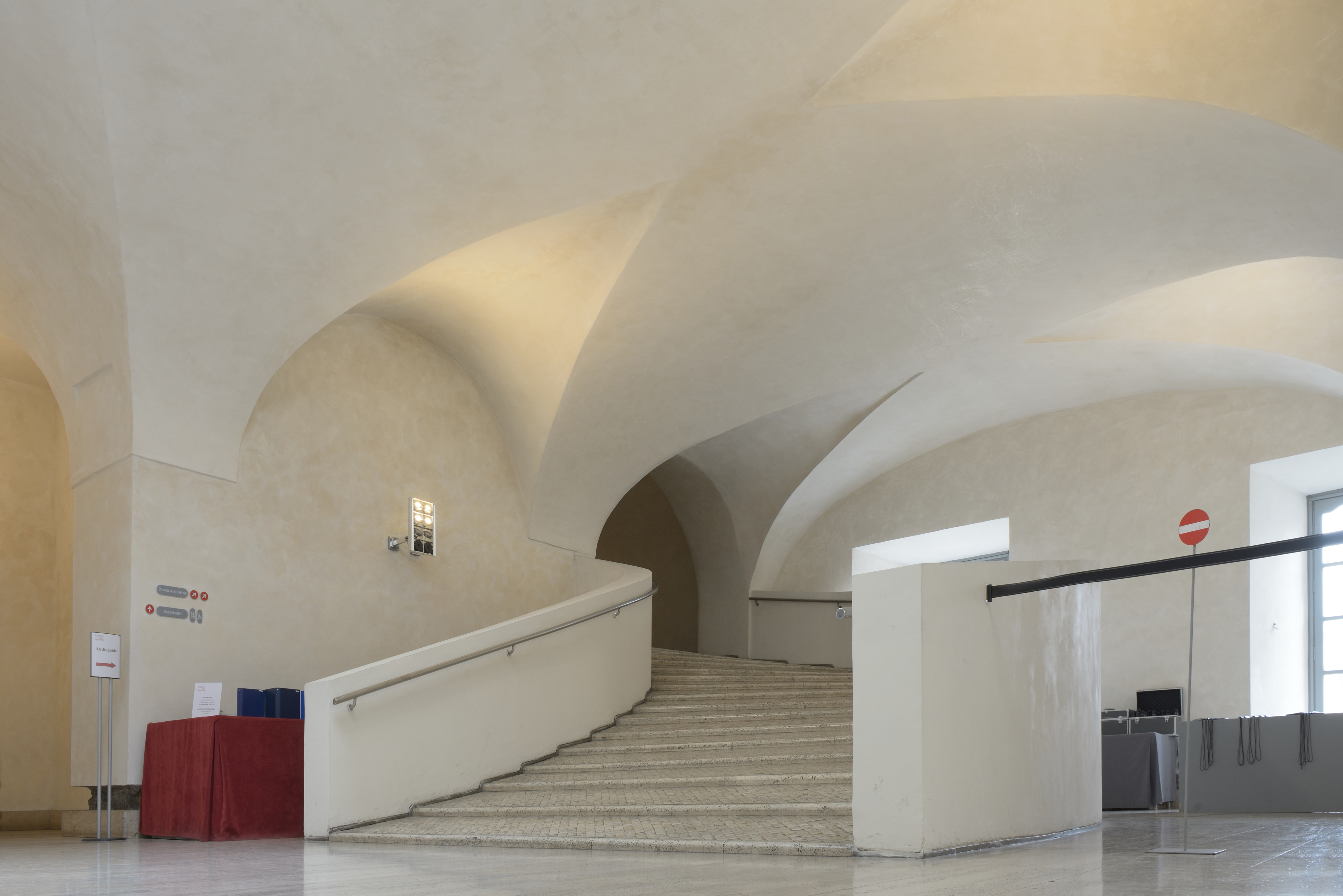 Entrance ramp in the Scuderie del Quirinale at the Quirinal Palace in Rome.